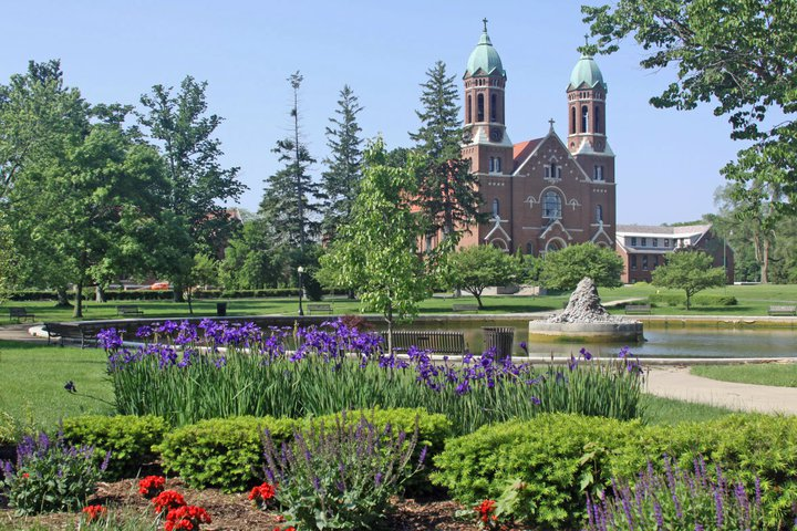 Photo of flowers, fountain, and the Chapel Building of Saint Joseph's College, taken in summer of 2011.